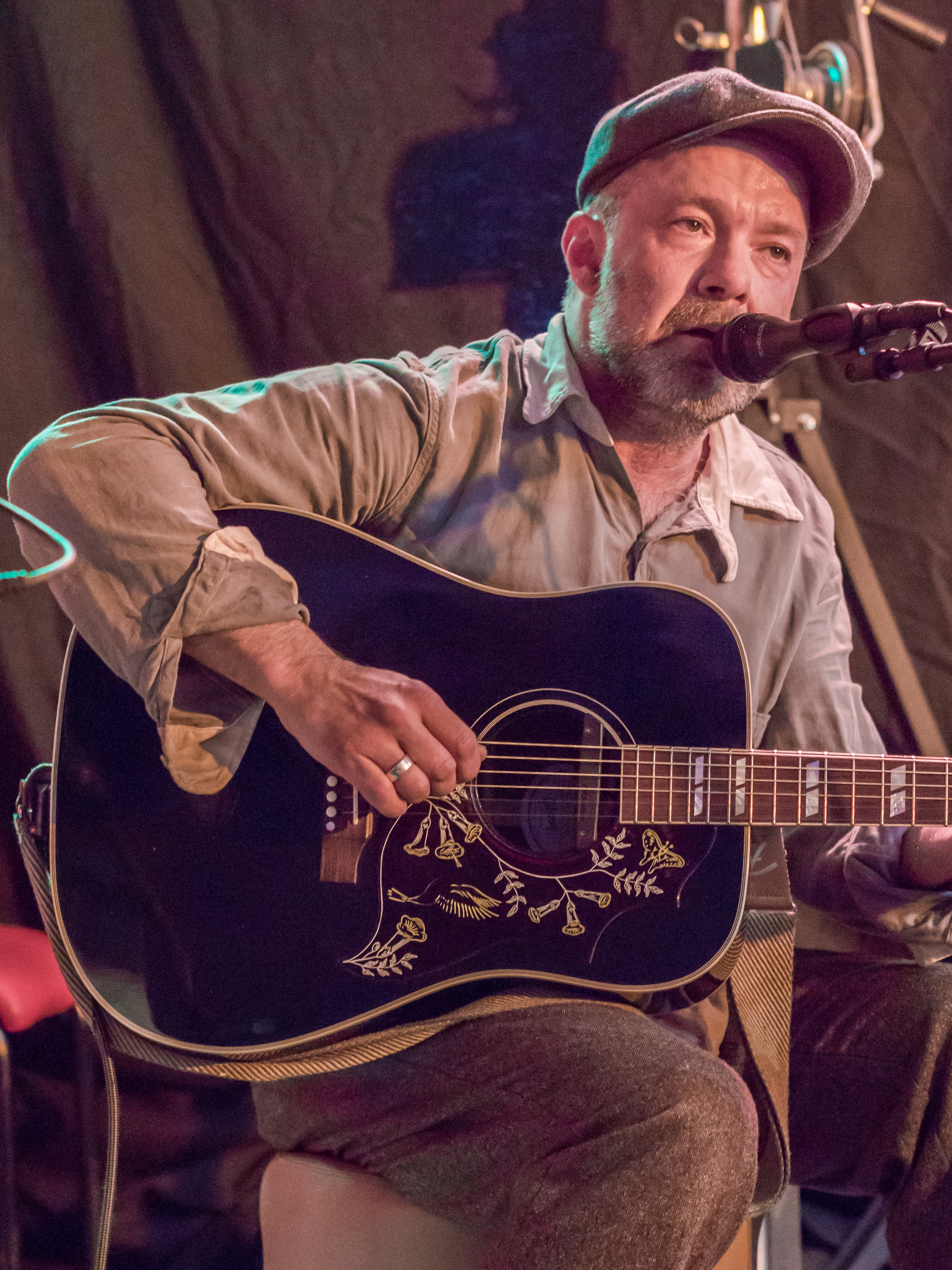 Swedish singer Toni Holgersson at Stadsbaren, Hedemora, Dalarna County, Sweden